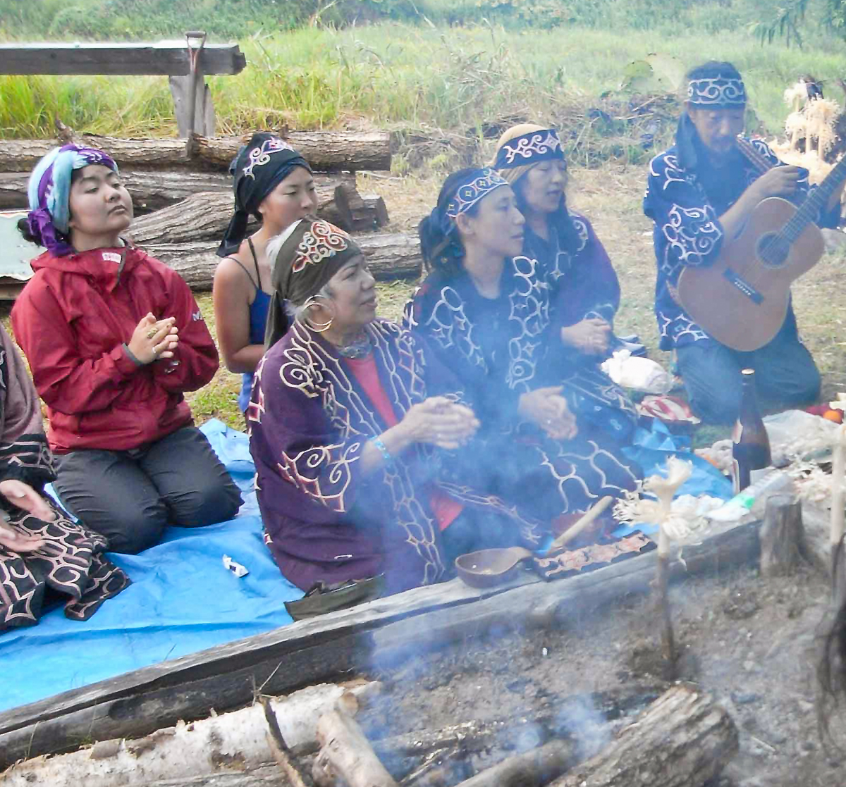 Marriage Ainu people Japan